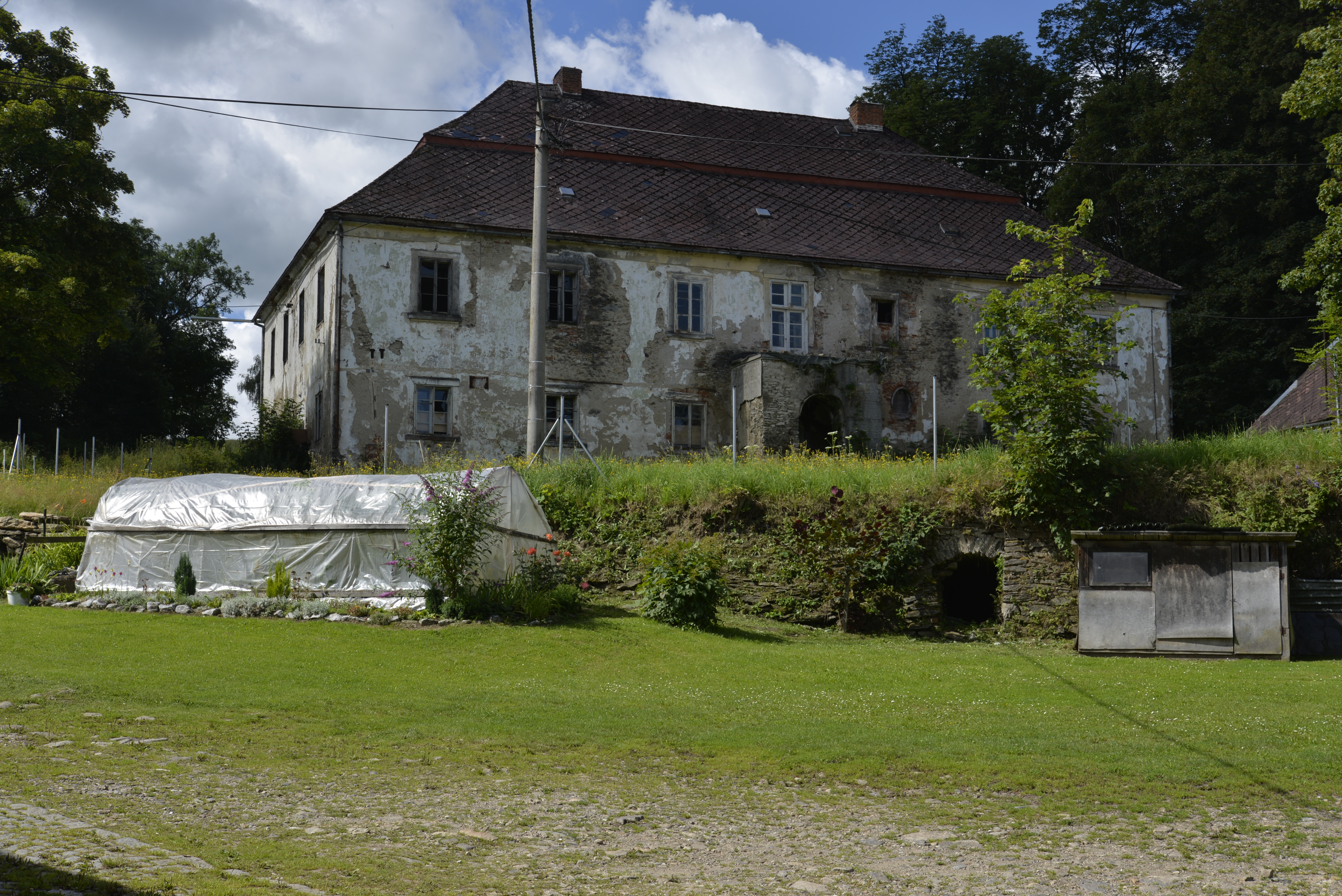 Castle Hlavňovice, Hlavňovice 1